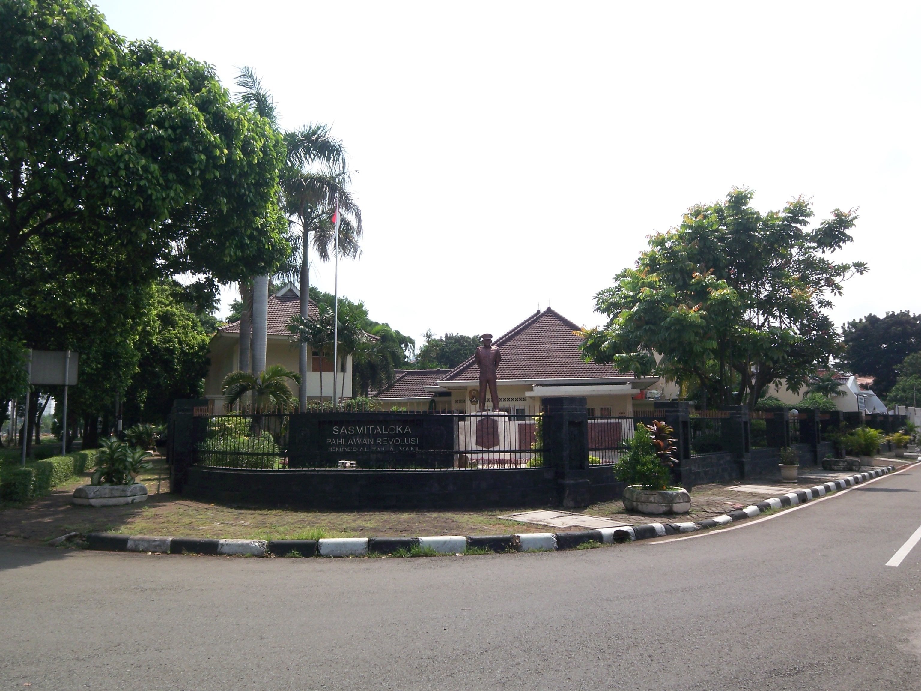 This is the picture of Museum Sasmita Loka Ahmad Yani, Jakarta, Indonesia